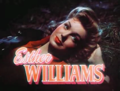 Esther Williams in Thrill of a Romance, by Richard Thorpe (1945)